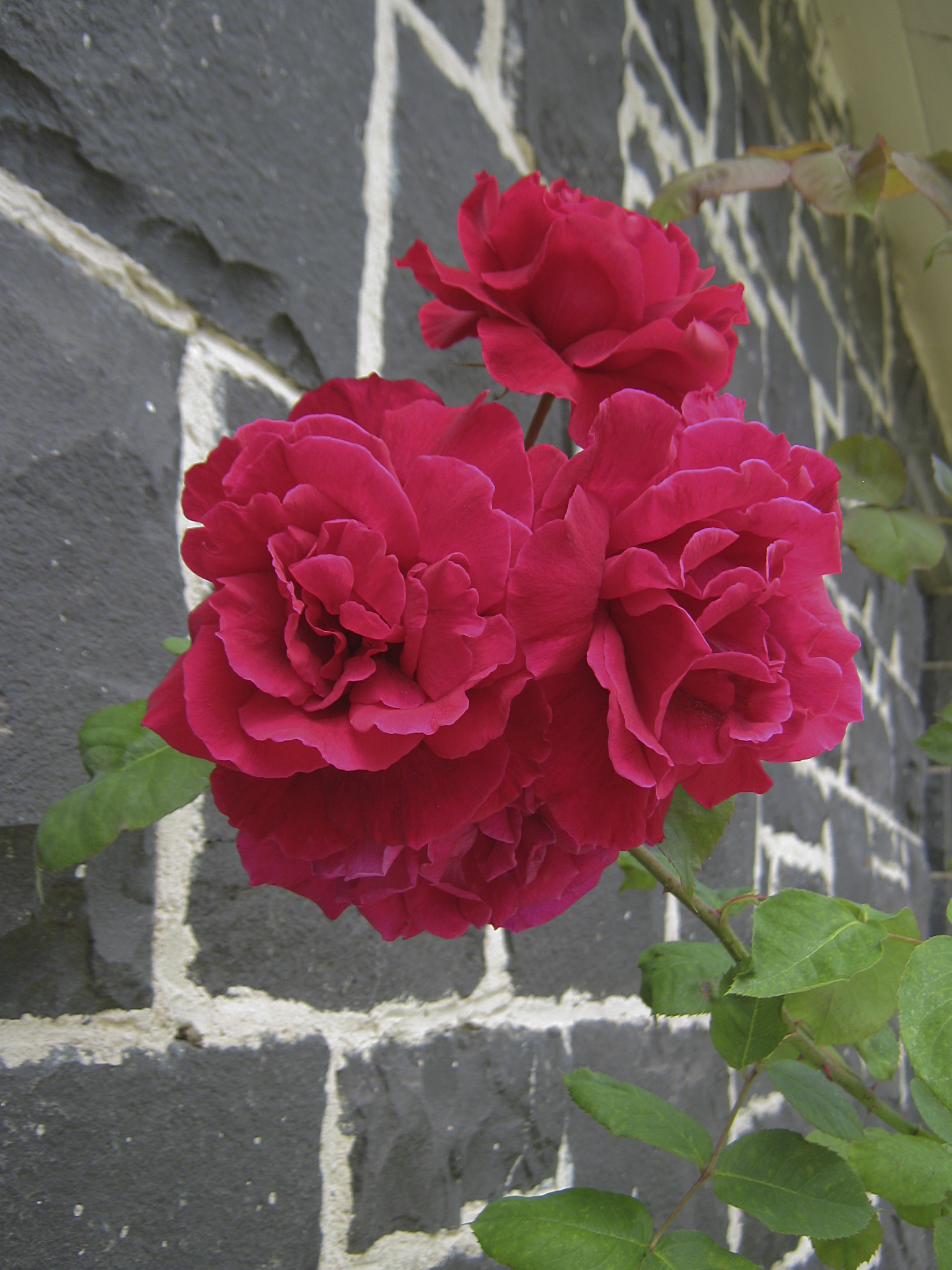 Rose 'Countess of Stradbroke', Hybrid Tea climber by Alister Clark 1928; photographed in the Alister Clark Memorial Rose Garden, Bulla, Victoria